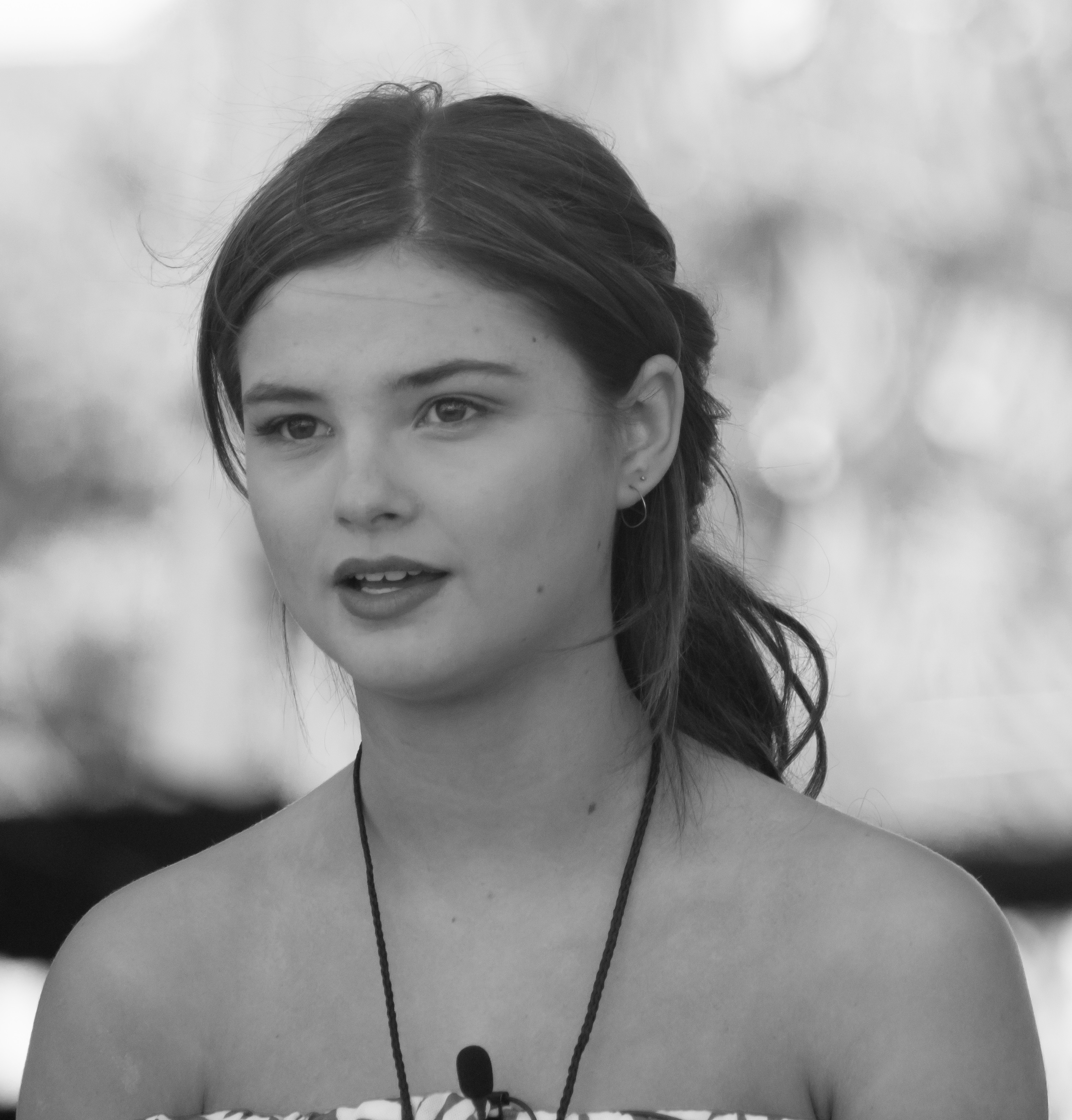 Stefanie Scott at the National Memorial Day Concert Open Dress Rehersal - May 24, 2015 (cropped)